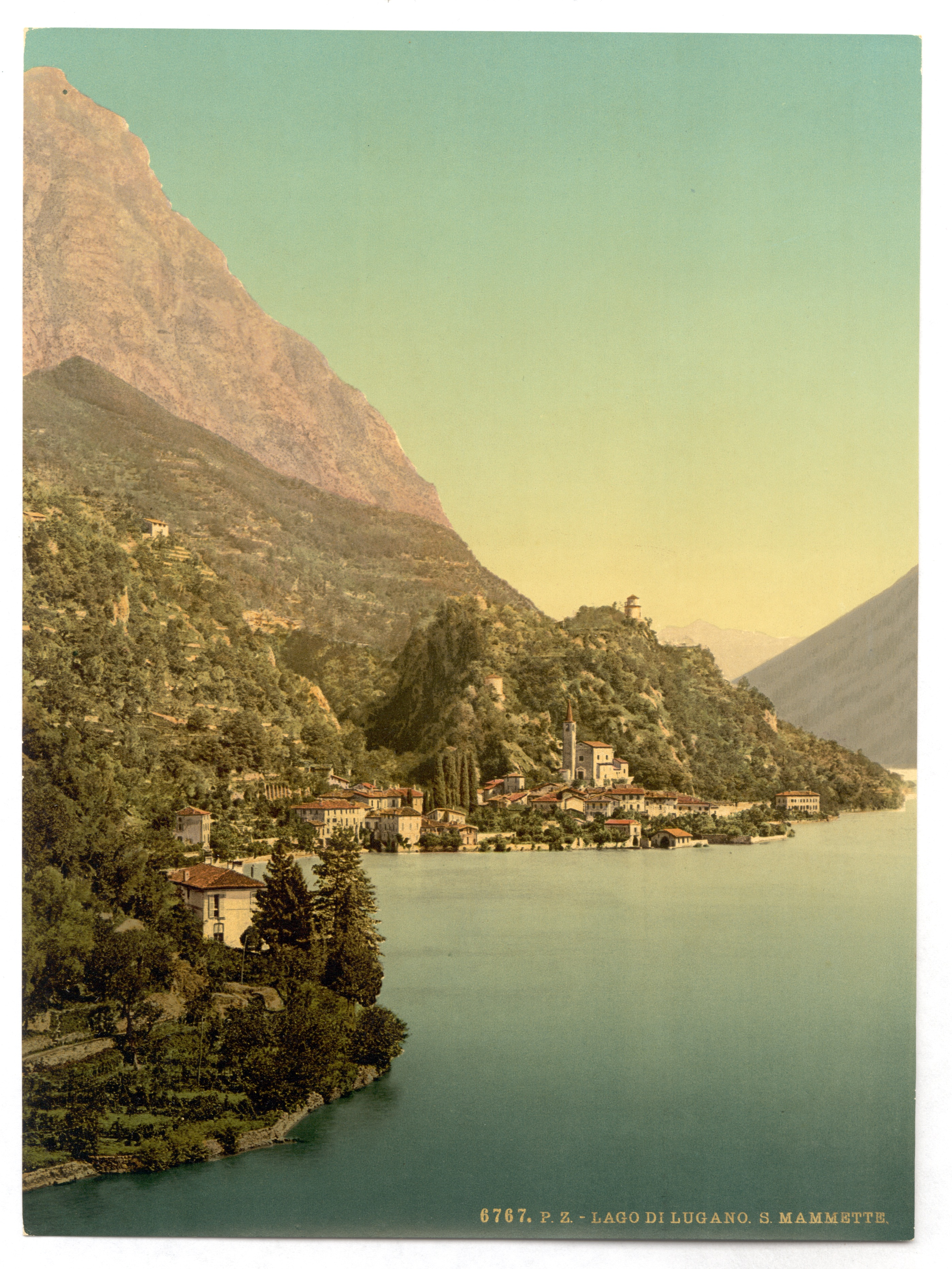 Forms part of: Views of Switzerland in the Photochrom print collection.; Print no. "6767".; Title from the Detroit Publishing Co., Catalogue J-foreign section, Detroit, Mich. : Detroit Publishing Company, 1905.